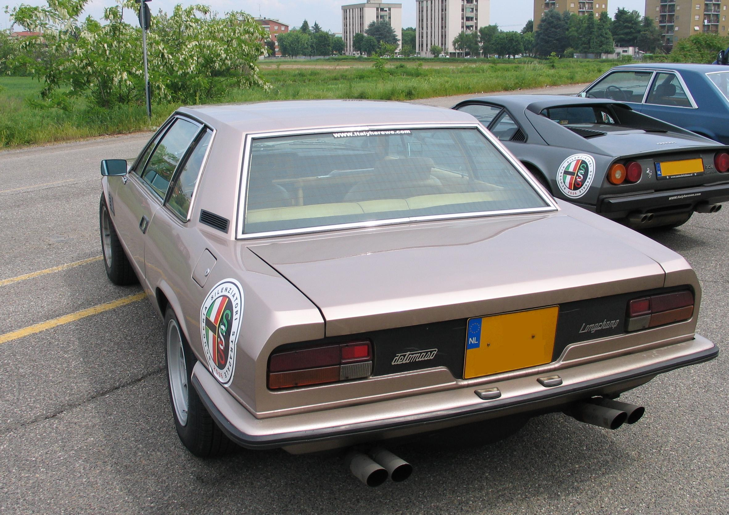 DeTomaso_Longchamp